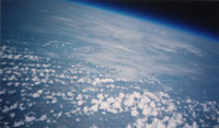 Earth's Horizon at 86,000 feet, photographed by an Amateur Radio High Altitude Ballooning flight.